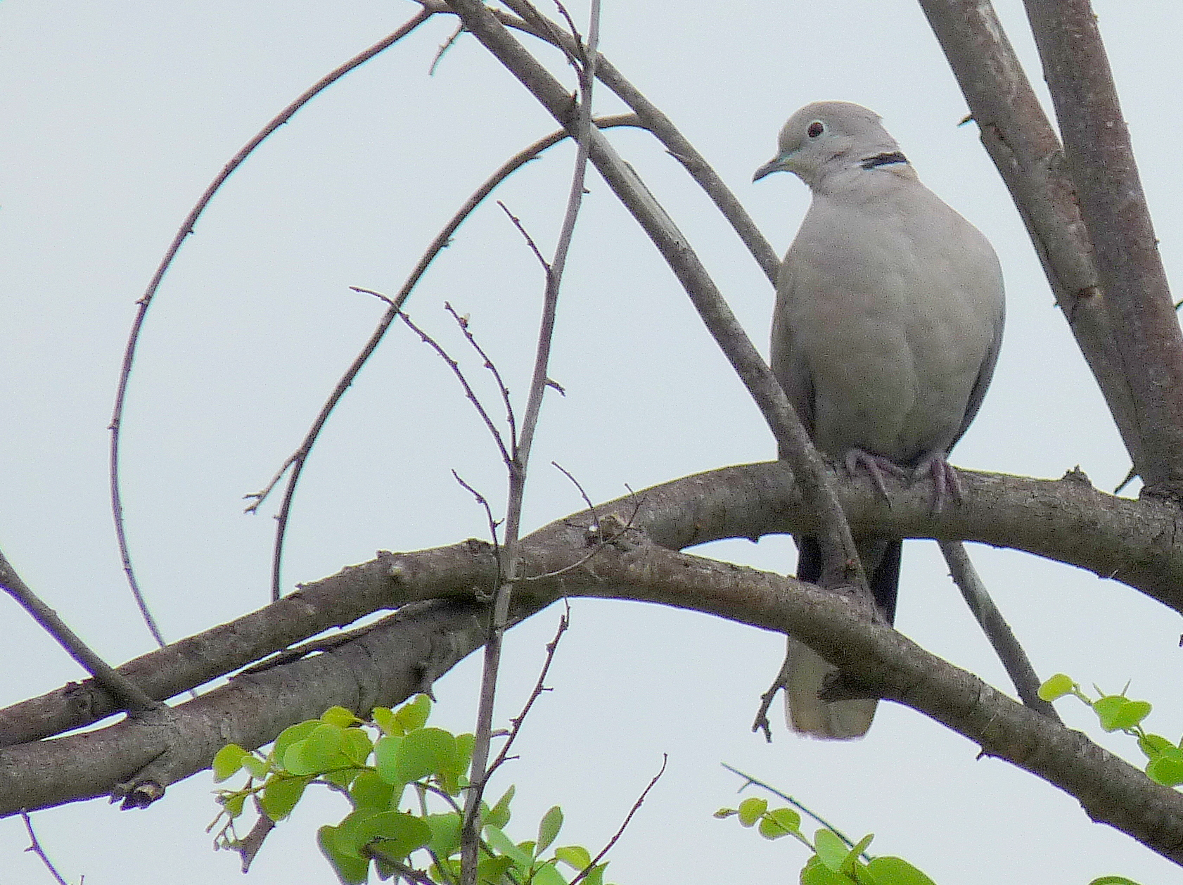 Eurasian Collared Dove. Nilgiris, Western Ghats, Tamil nadu, India.